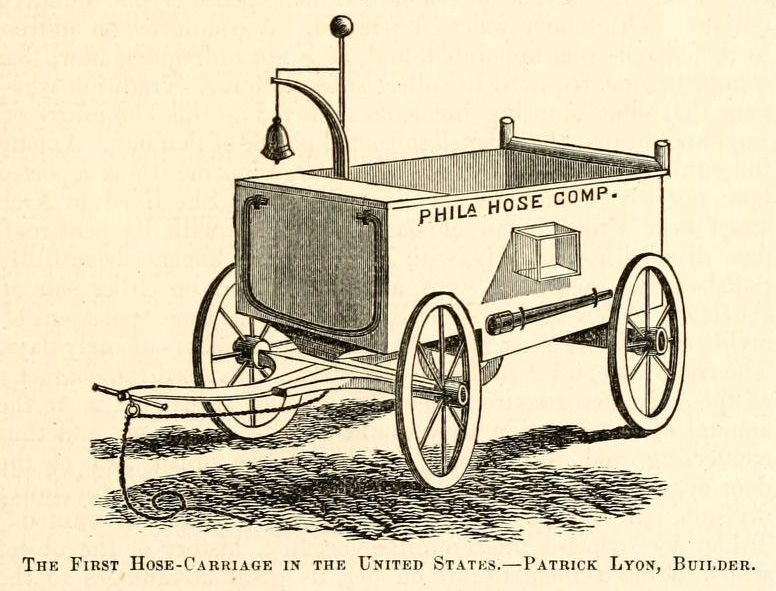 Engraving: The First Hose-Carriage in the United States.—Patrick Lyon, Builder.